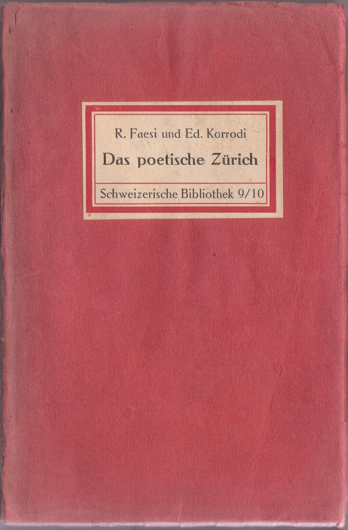 Cover (Brochure) of tome 9-10 "Schweizerische Bibliothek"